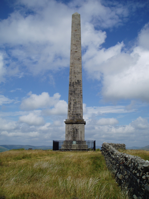 The Malcolm Monument, Langholm. This enormous obelisk which can be seen from far and wide was erected to the memory of Major General Sir john Malcolm who died in 1833.